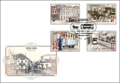 125 years since the commissioning of Minsk horse railway.